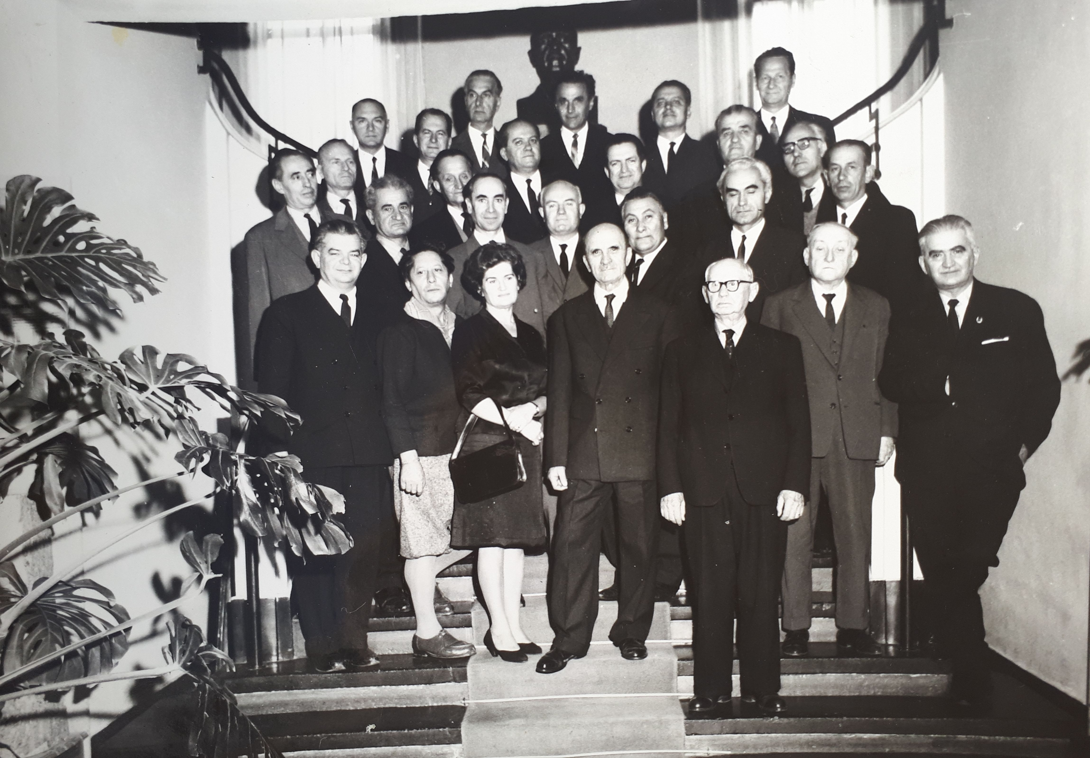 Forestry faculty professors: Alexandru Beldie, Aurora Gruescu, Marin Rădulescu, Vintilă Stinghe, Grigore Eliescu, Constantin Chiriță